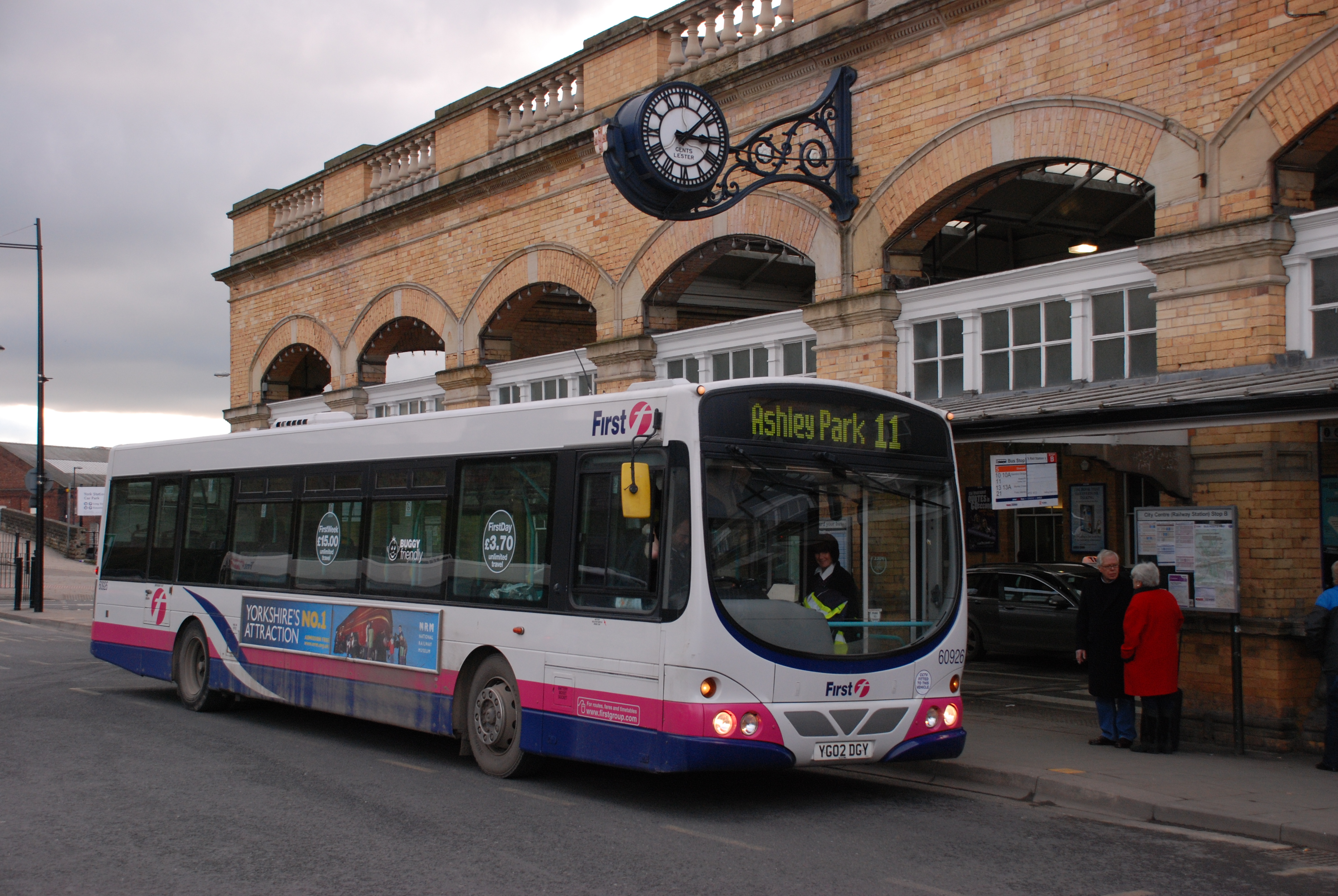 First bus outside York rail station.